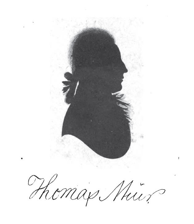 Image of Thomas Muir from The book "The Life of Thomas Muir, Esq. Advocate, Younger of Huntershill, etc.